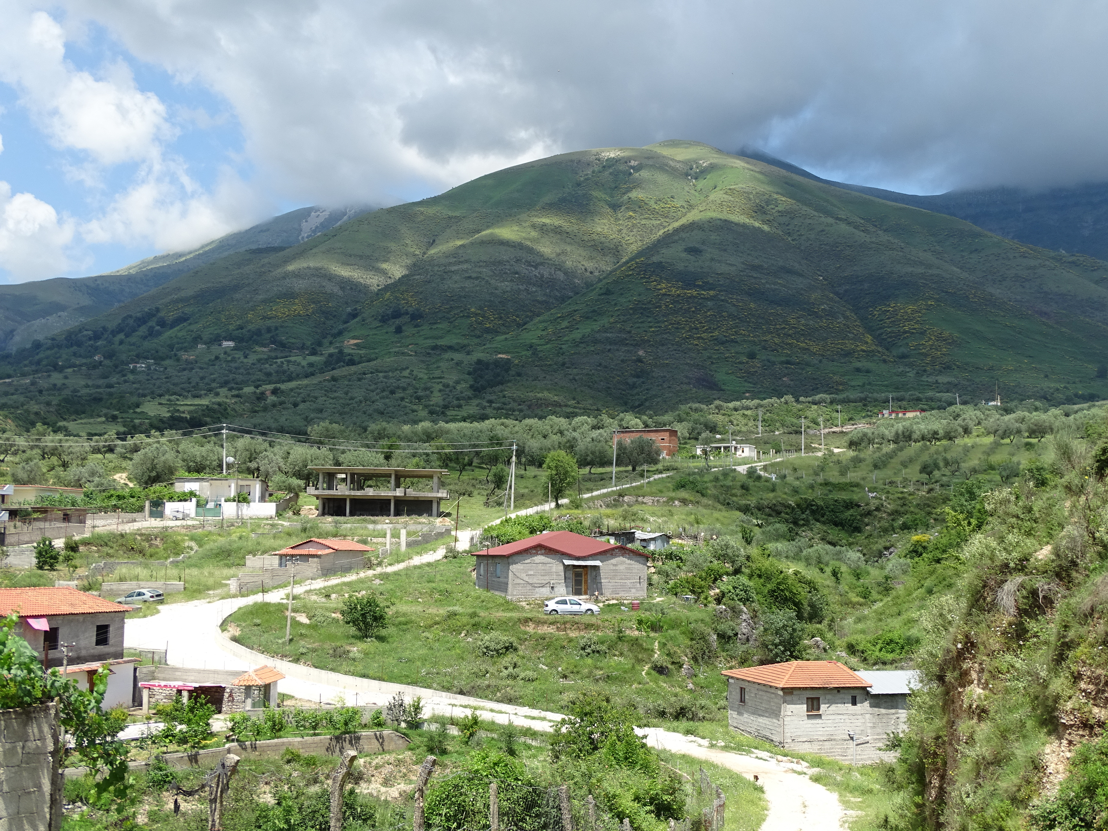 Photos by Adam Jones